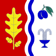 Flag of the city and municipality of Ljig in Serbia